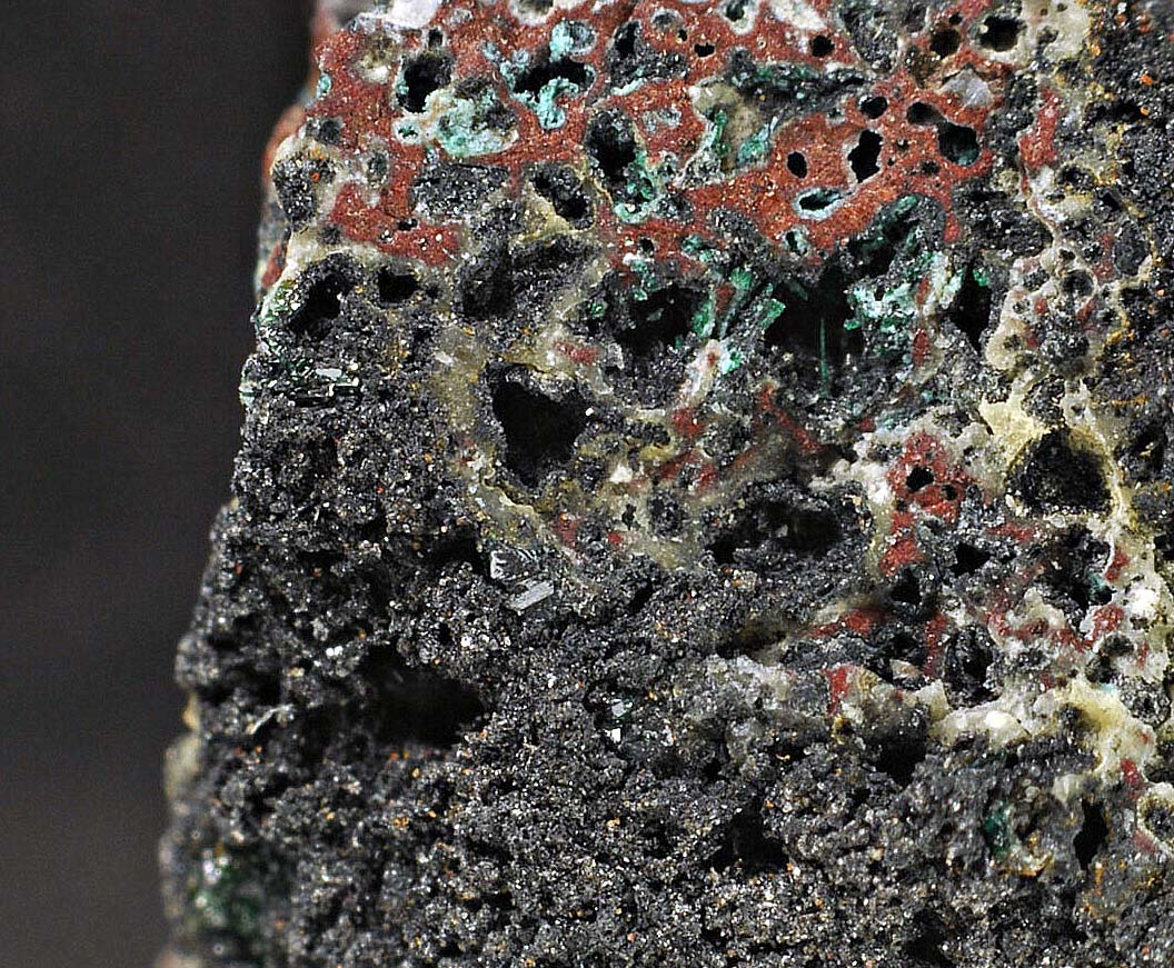 Mcbirneyite is a very rare copper-vanadate mineral, forms tiny black crystals as inclusions or epitaxially grown with green stacked grown lammerite. The associating minerals are tiny black-red lyonsite needles, emerald green piypite needles and rich black microcrystalline coatings of hematite and orange microcrystalline coating of antimony bearing rutile. Very interesting and super rare combination. From: Yadovitaya Fumarole, Great Fissure, Tolbachik, Far Eastern Region, Russian Federation.